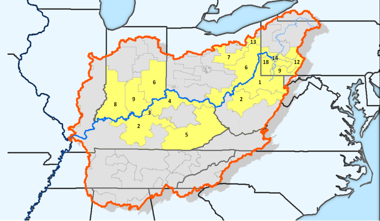 This file depicts the districts represented by members of the [Ohio River Basin Congressional Caucus